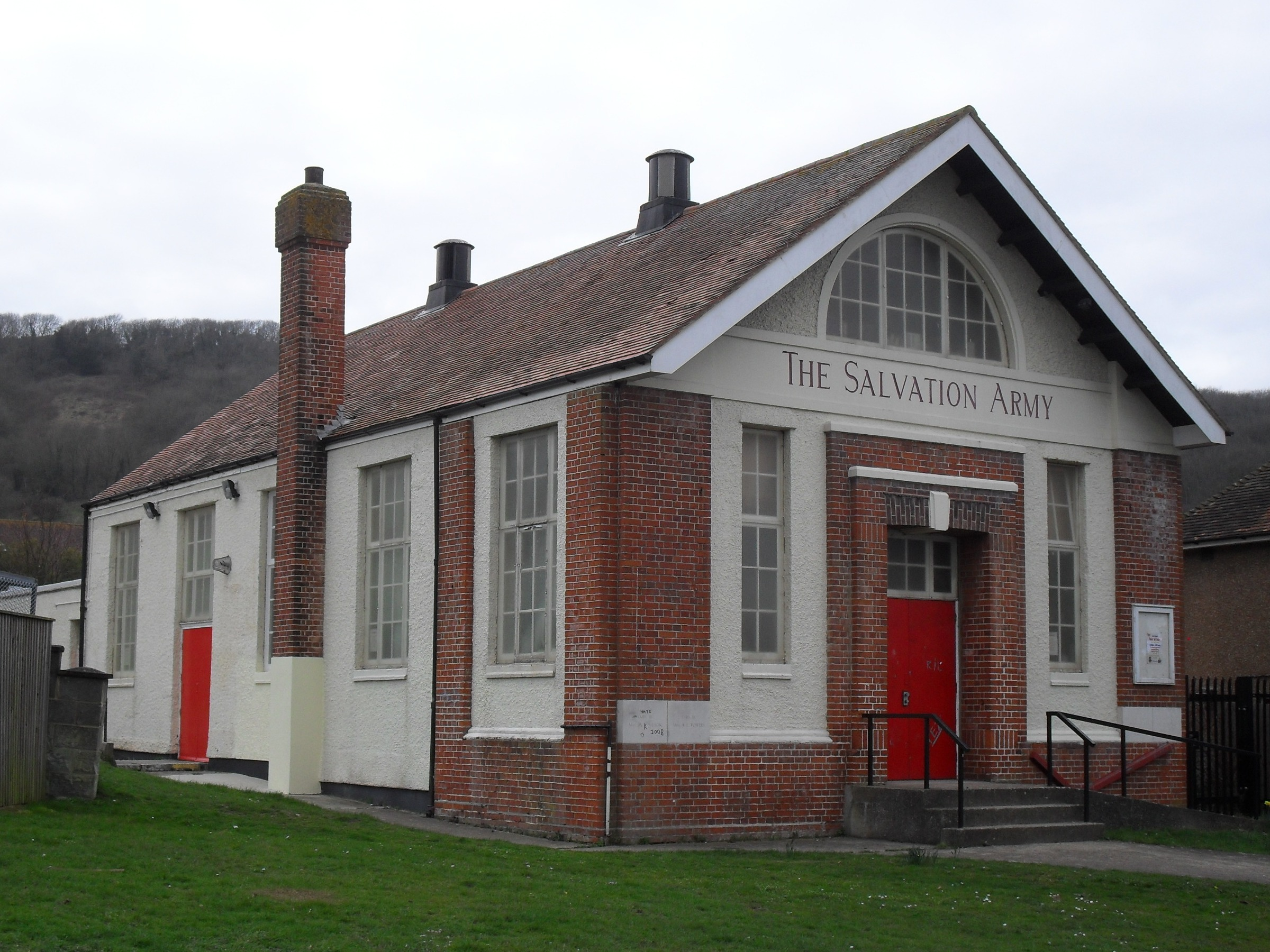 Salvation Army, Eastbourne Old Town Corps, 33 Royal Sussex Crescent, Eastbourne, East Sussex, England. Opened in July 1932.